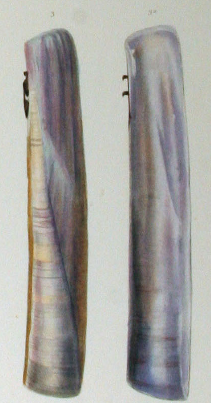 Ensis minor (Chenu, 1843), Pharidae, Bivalvia, Mollusca, from Chenu (1843: pl..3, fig.3)